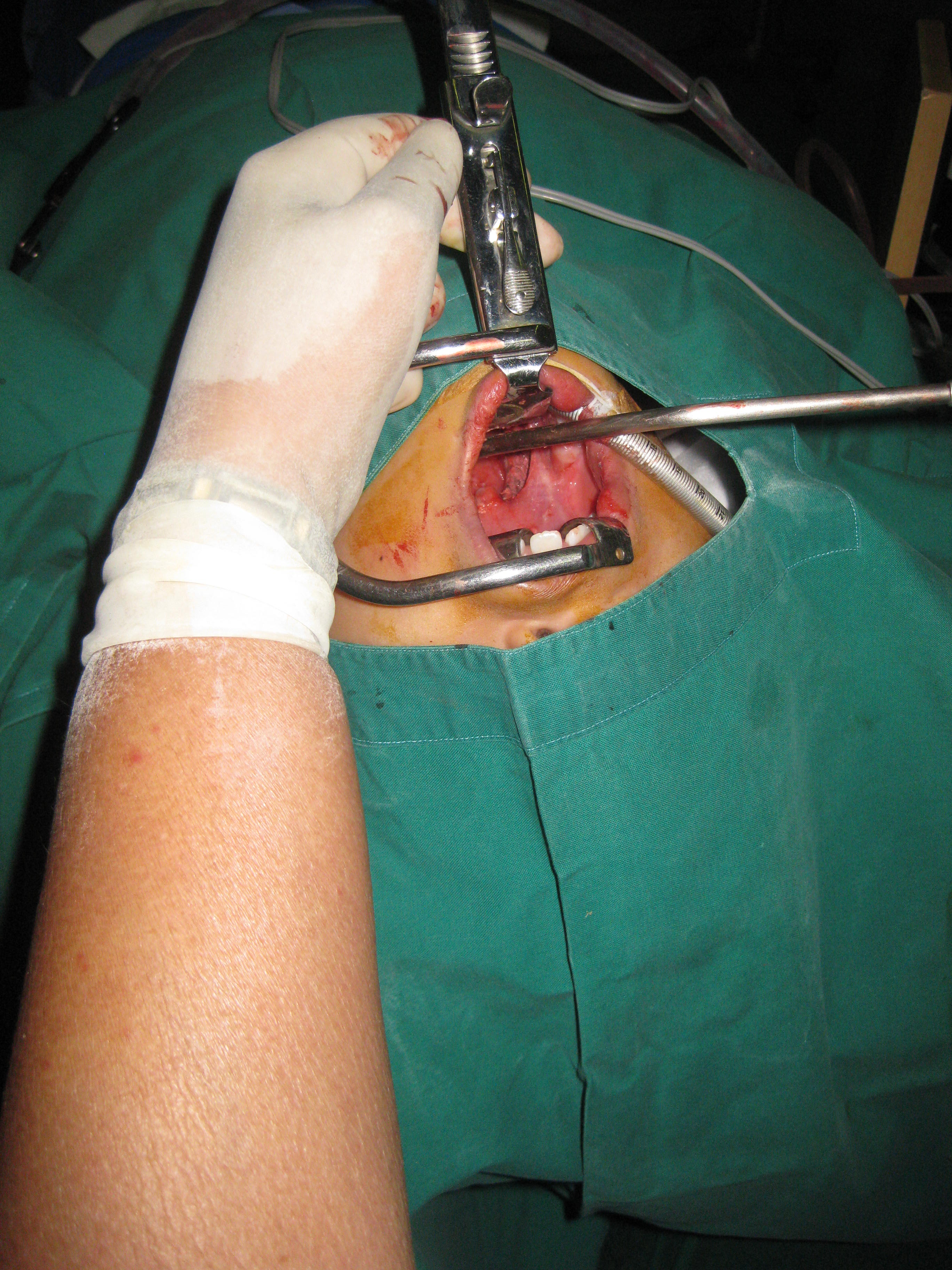 A tonsillectomy executed in MMC Hospital, Jakarta.